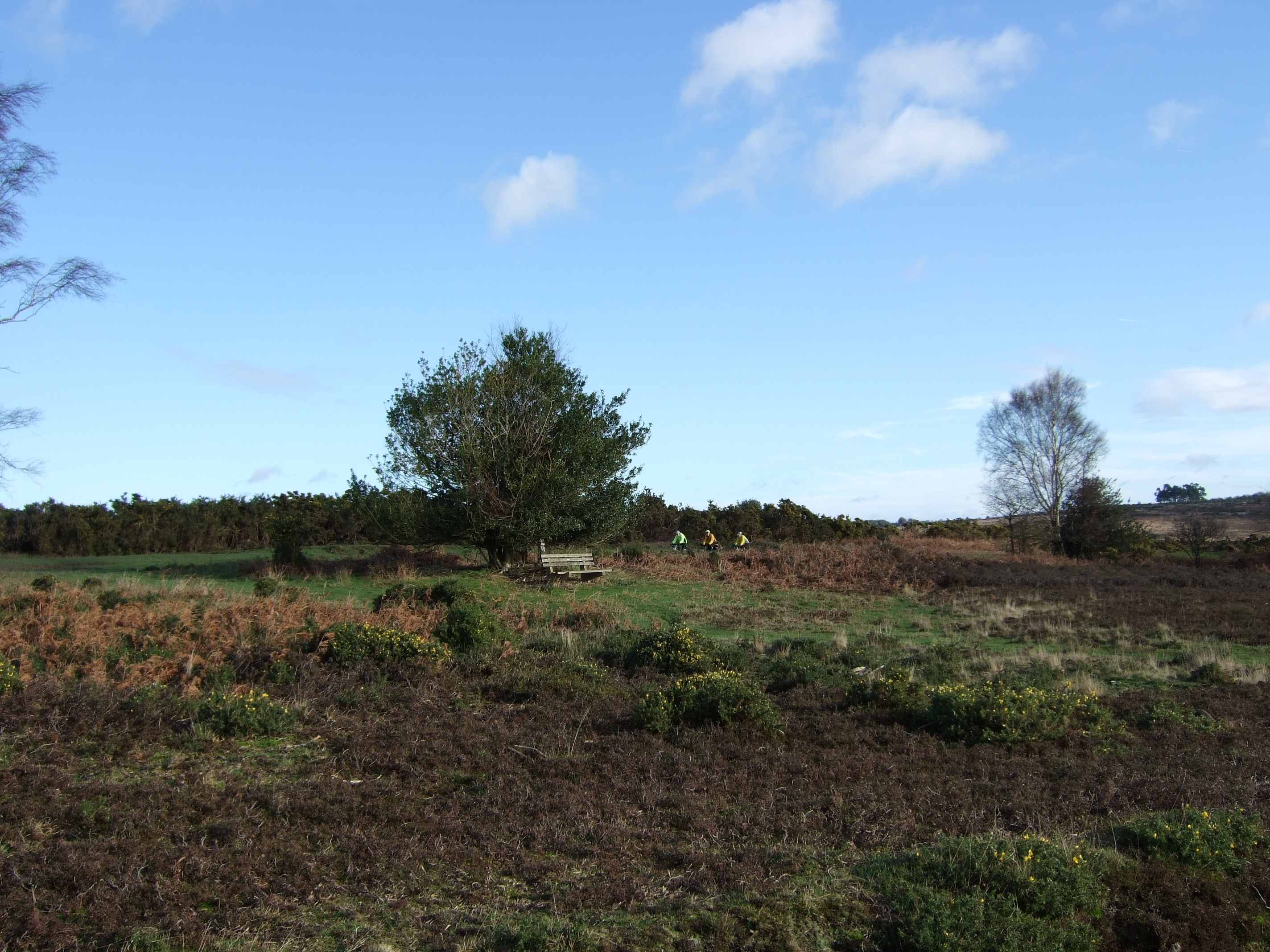 Cyclists crossing Ashdown Forest on Crowborough Road